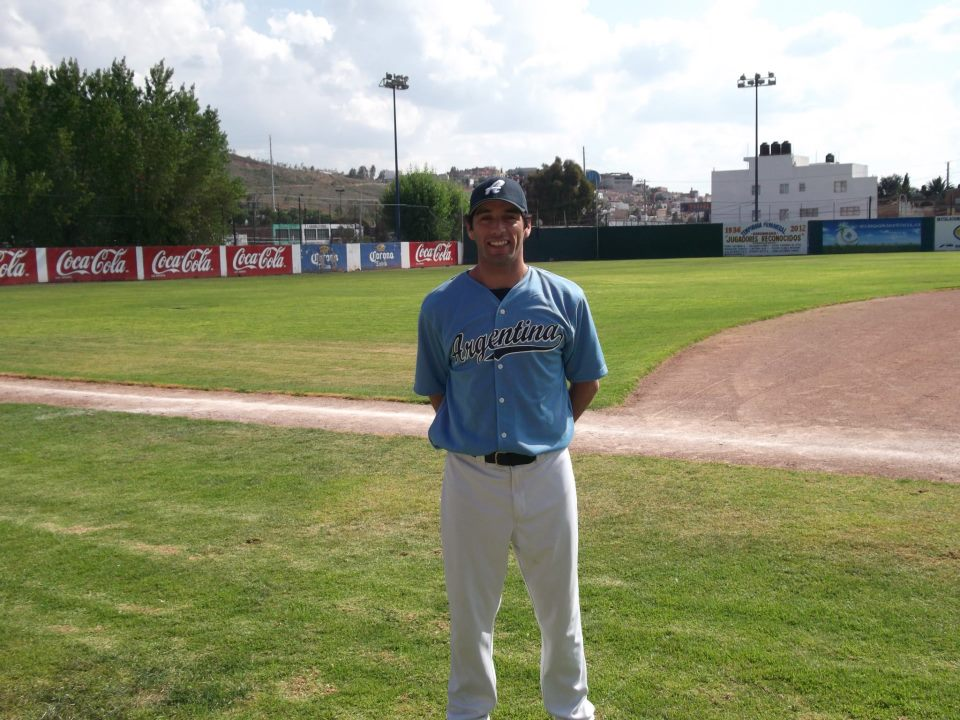 Argentinian Pitcher, Diego Echeverria, minutes after the first game of the South American Tournament on Guayaquil, Ecuator